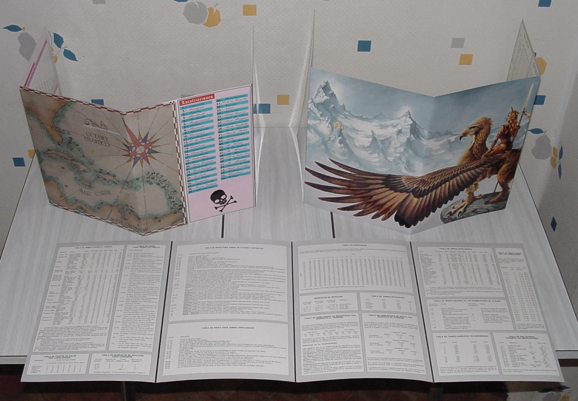 A variety of gamemaster's screens for different role-playing games. In the background, left side: the GM screen of the Spanish role-playing game ¡Piratas!. In the background, right side: French version of the RuneQuest GM screen (Oriflam, 1991). In the foreground, completely unfolded, inner face upward, the Spanish version of the RuneQuest GM screen (Joc Internacional, 1989).